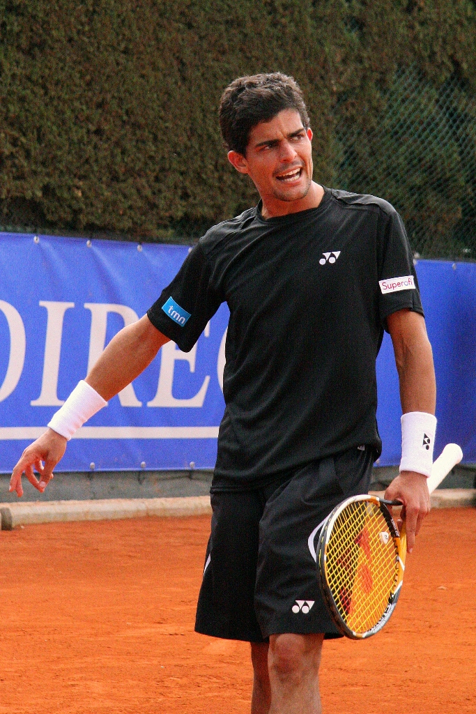 Tennis player Rui Machado during the final match of Rome challenger 2012.